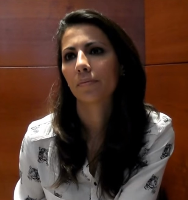 Spanish Journalist Ana Pastor